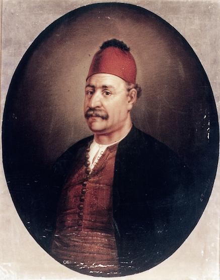 A photograph of the portrait of Andreas Miaoulis Misc: Oil on canvas, National Historical museum Greece